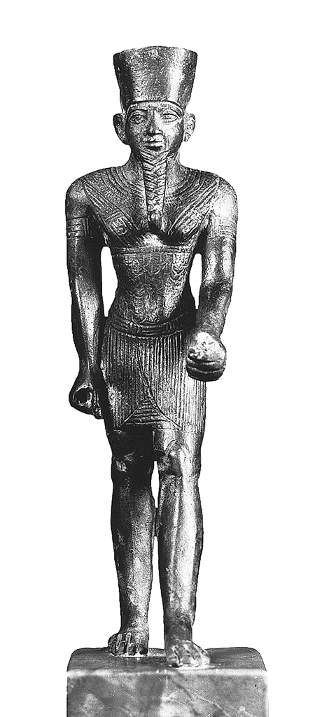 Amun is depicted standing, wearing a cap and with inlaid eyes. His left arm is forward while his right is at his side; both hands are pierced. There is a groove in the cap for inserting plumes.